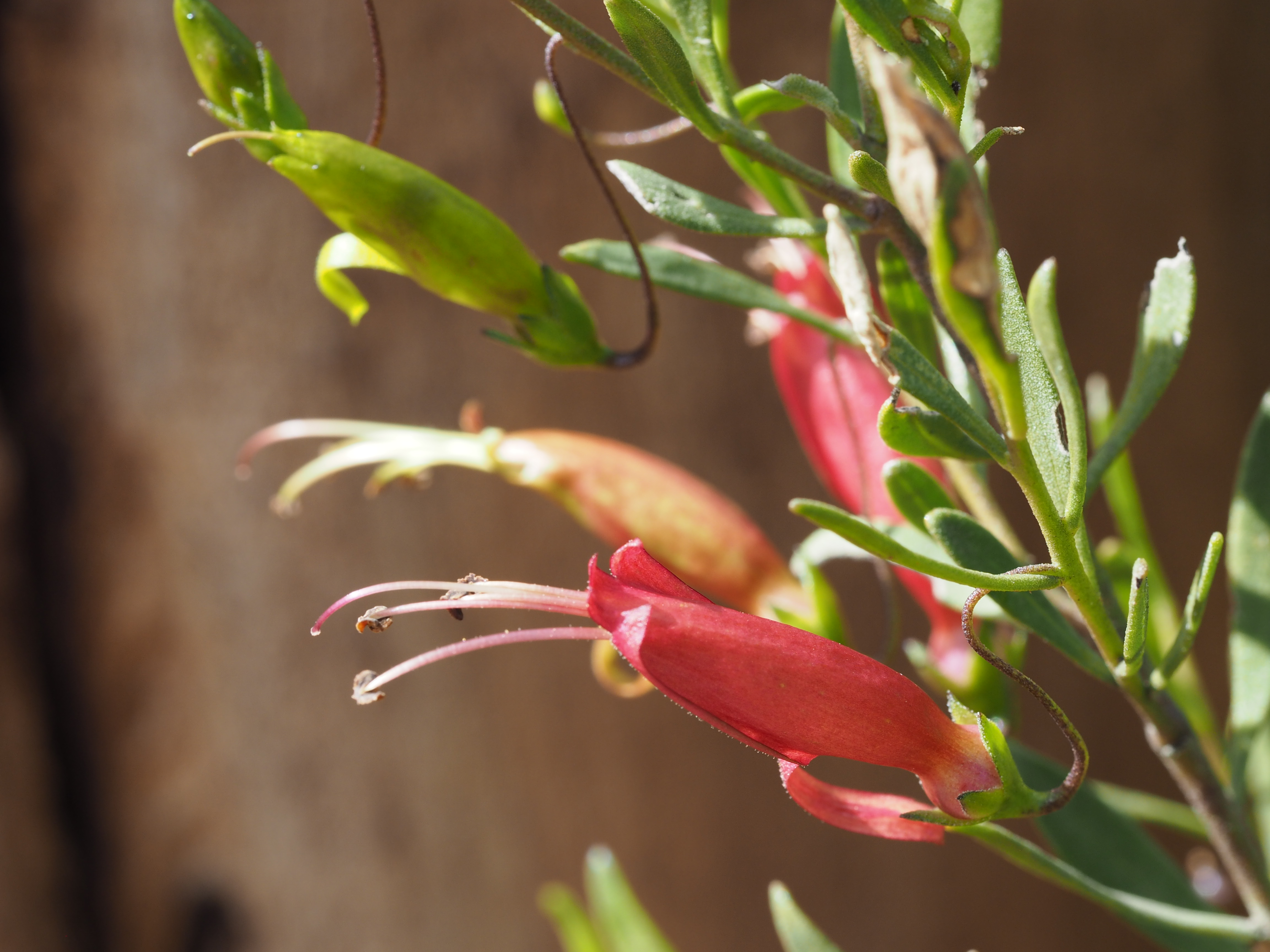 Eremophila maculata brevifolia growing at Bromus Dam